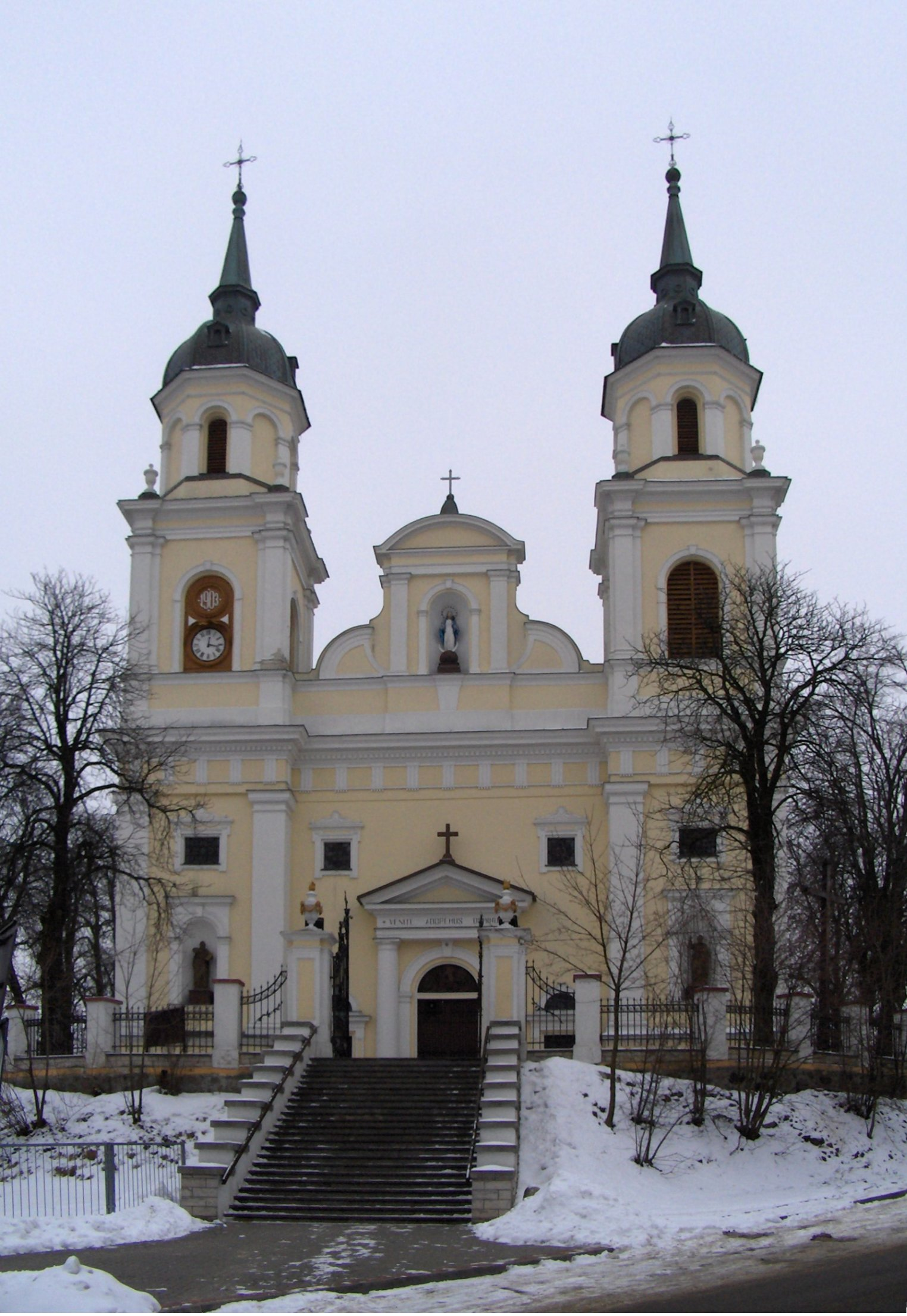 Parish church in Żelechów